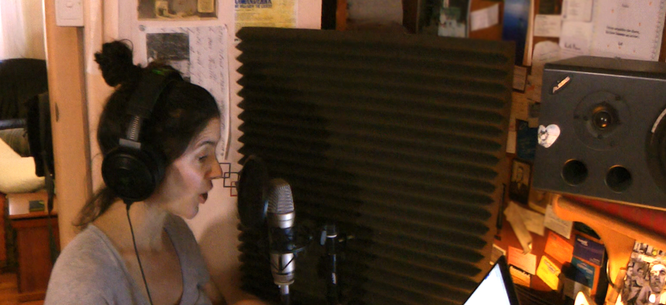 Recording the audio track fgor an Honest Government Ad with Lucy, who provides the voice-over for the series